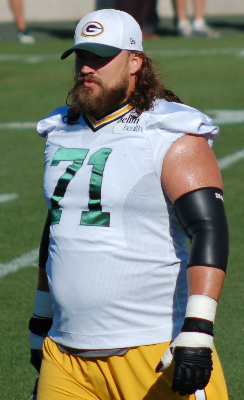 2015 Packers training camp